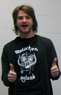 Stacy Jones pictured in a dressing room that he was assigned during the Hannah Montana "Best of Both Worlds" Tour in December 2007. This image has been cropped from the original but otherwise not changed.